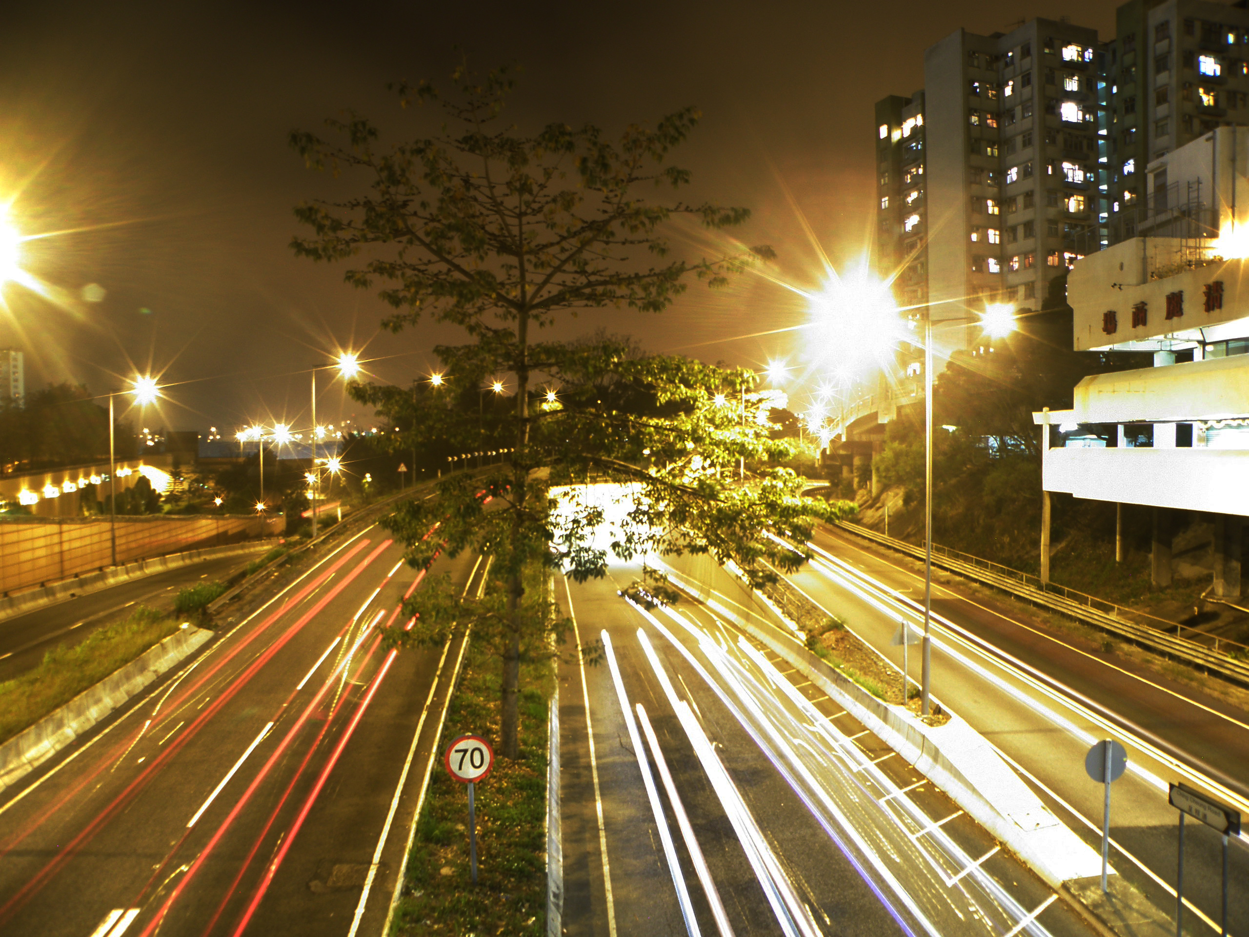 Ching Cheung Road in Mei Foo, Hong Kong.